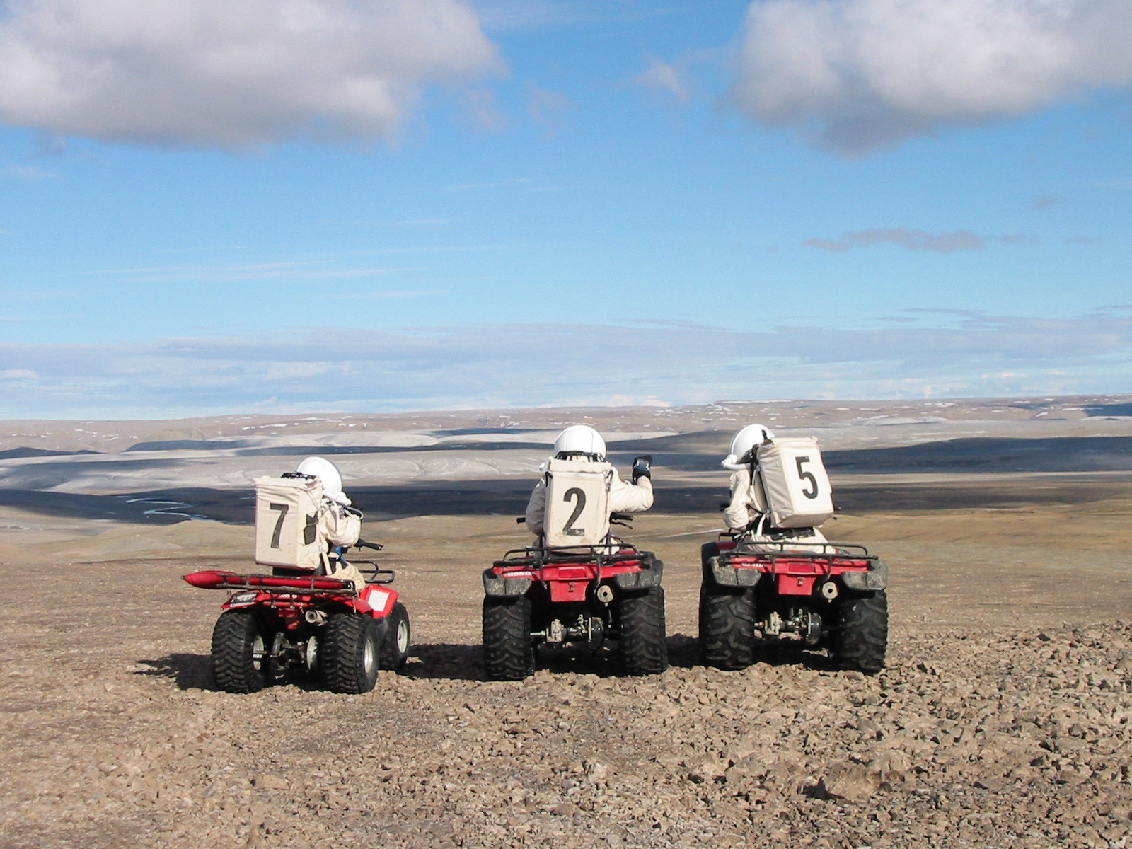 Crew 7 members on a motorized EVA on Devon Island in July 2002.